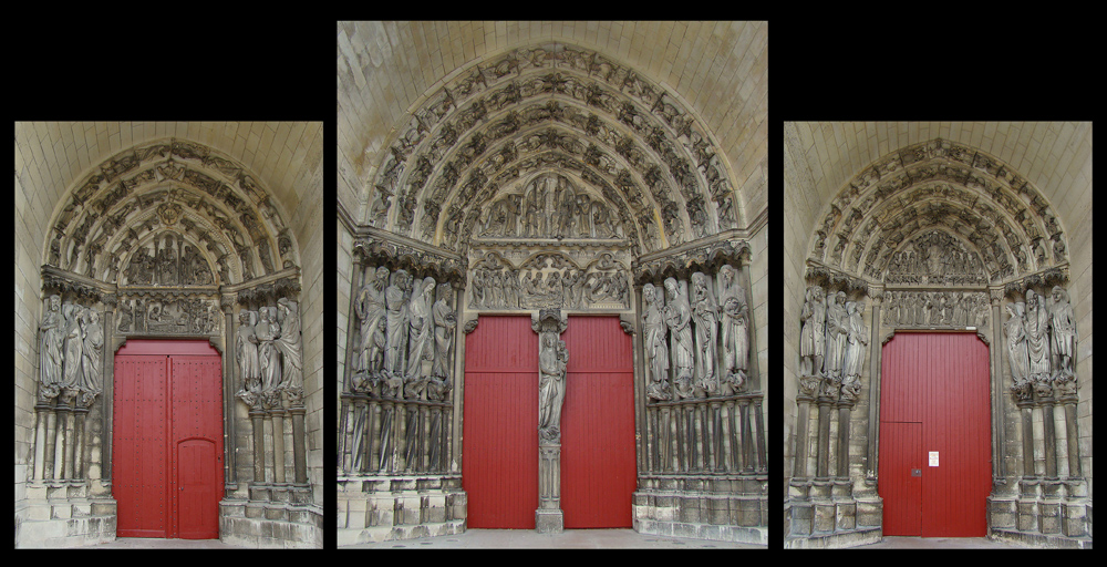 Laon Cathedral, Aisne, Picardie, France. The west façade three portals.